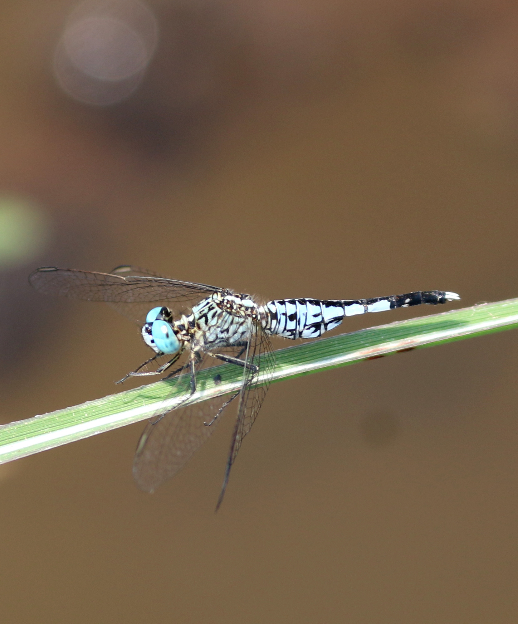 Grizzled Pintail(Trumpet tail)